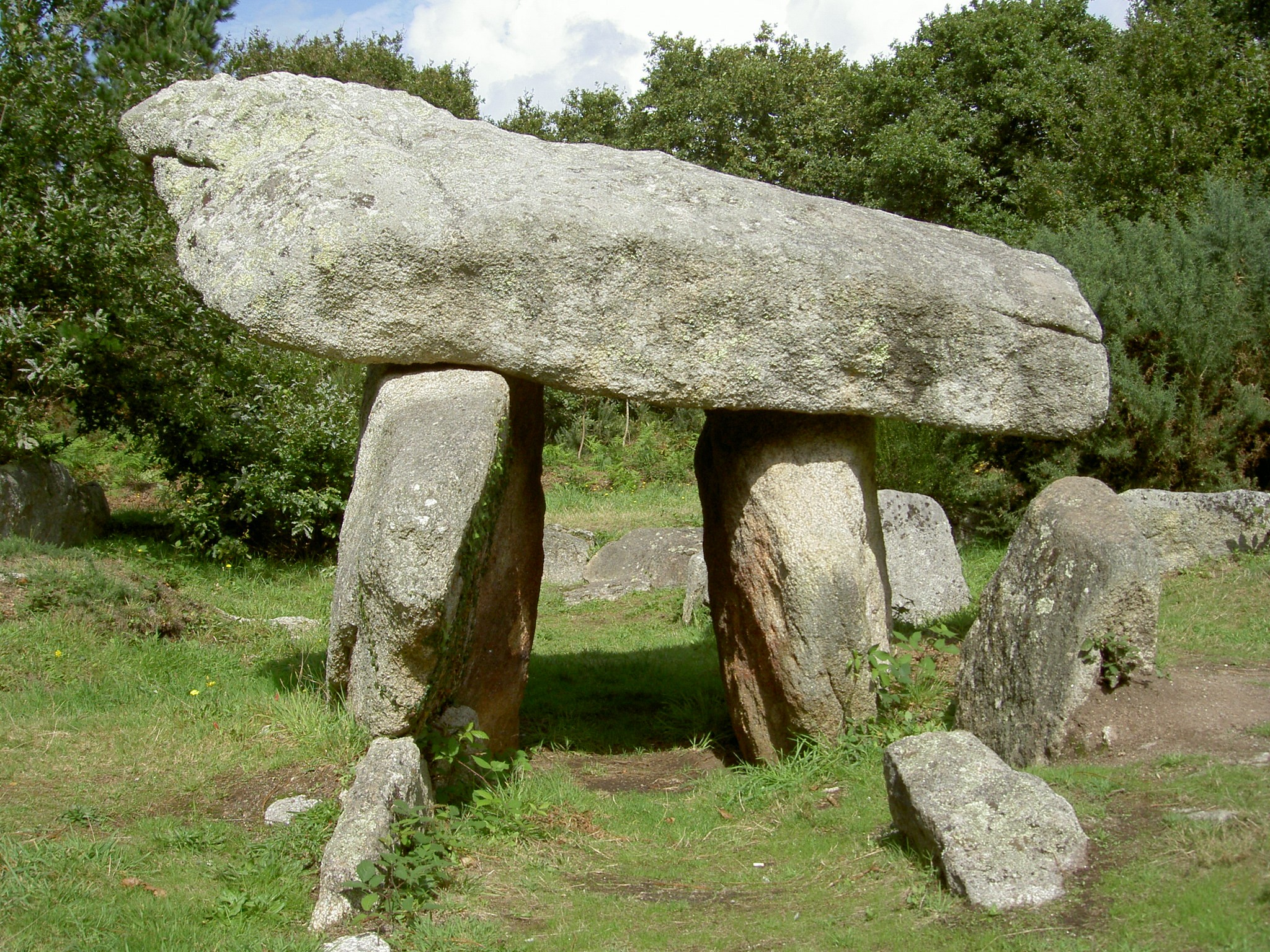 Dolmen of Quélarn, in Plobannalec-Lesconil (France).